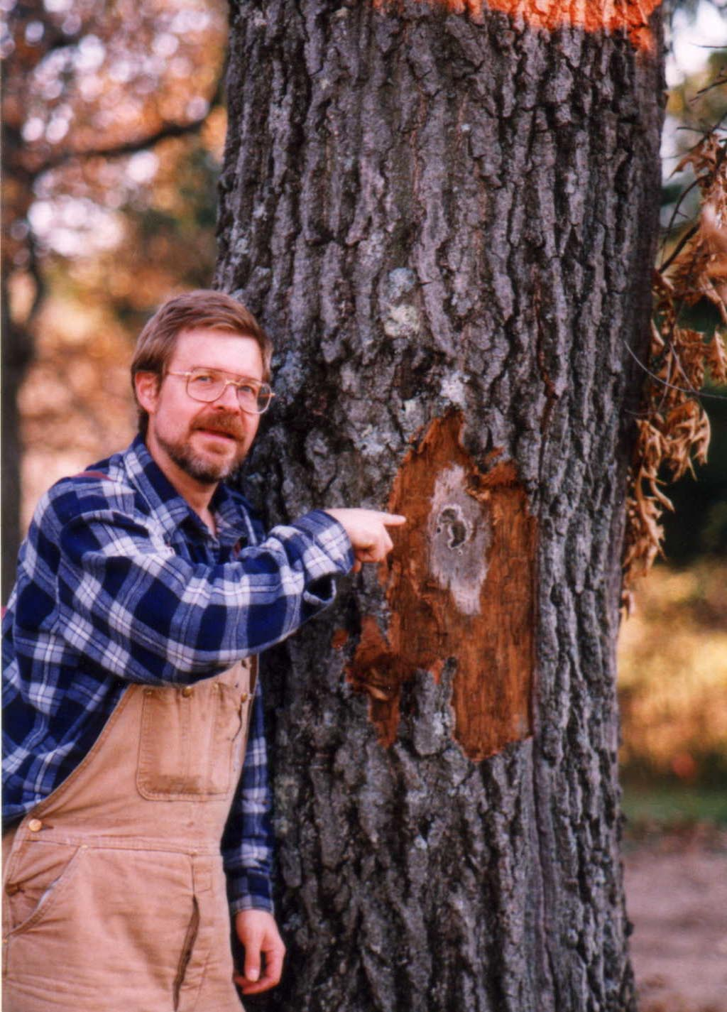 Spore mats are produced by red oak group trees; white oaks do not produce spore mats.